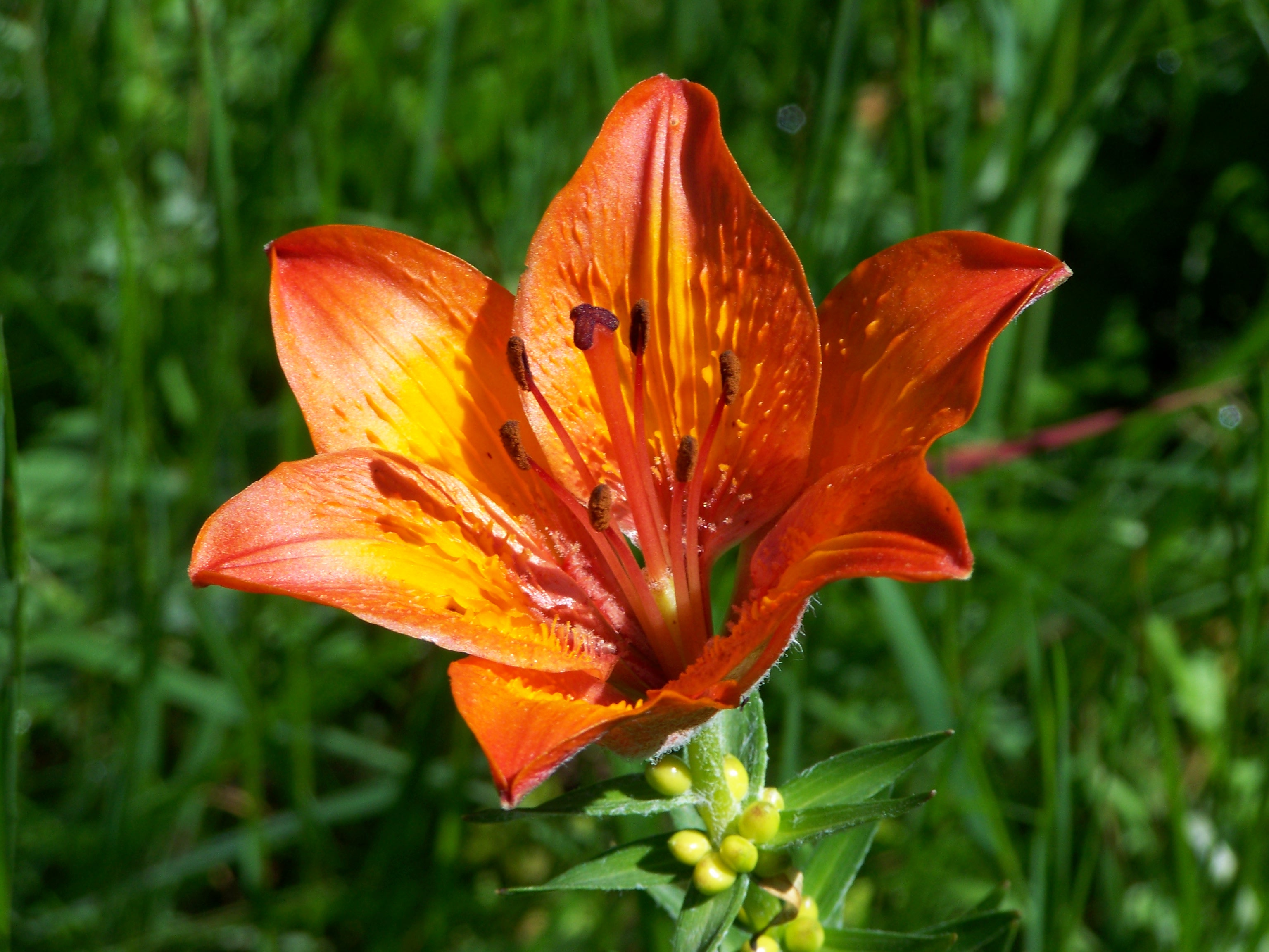 Natural reserve Nad Zavirkou in 2010